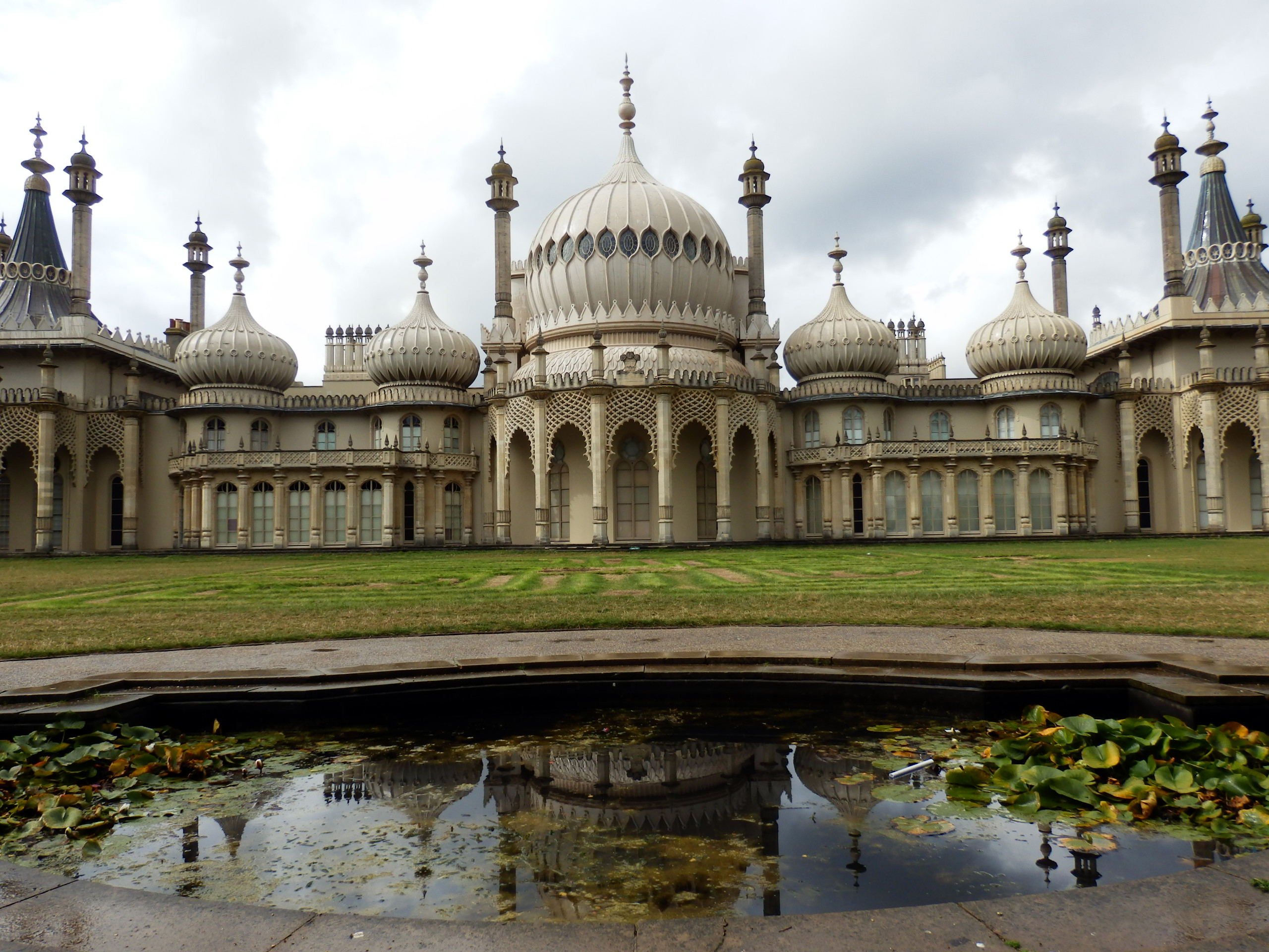 The Royal Pavilion, Brighton, after a rain